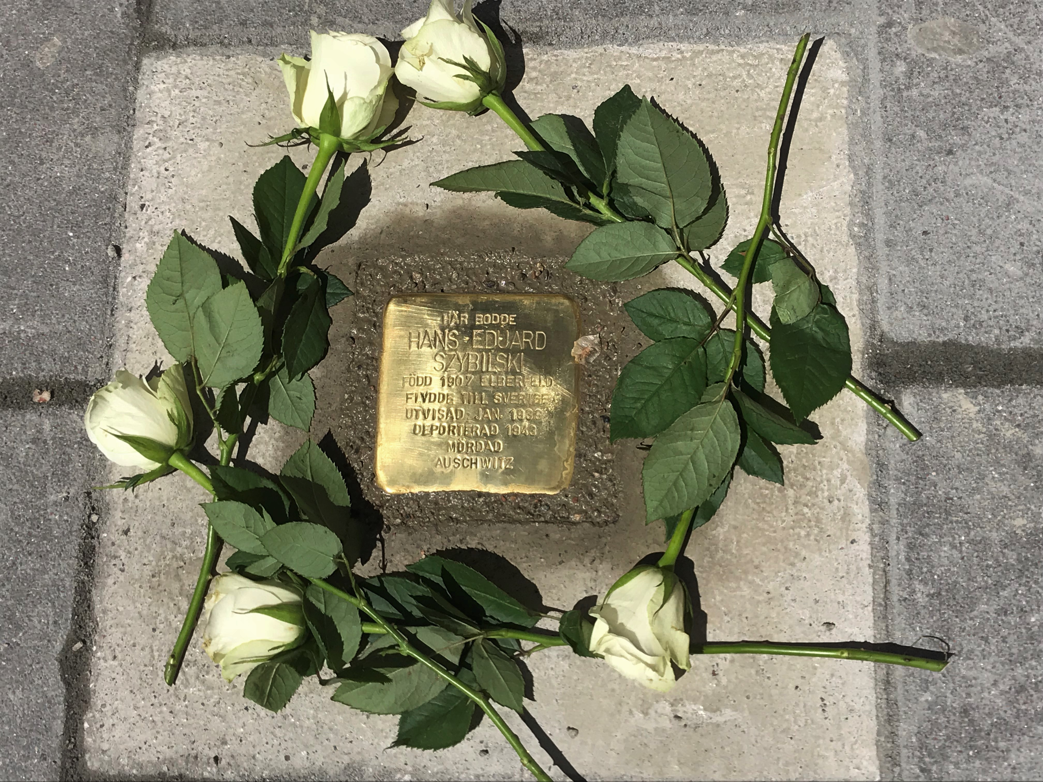 Stolperstein in memory of Hans Eduard Szybilski in front of Apelbergsgatan 36 in Stockholm, shortly after having been installed by the artist Gunter Demnig on Friday, June 14, 2019.